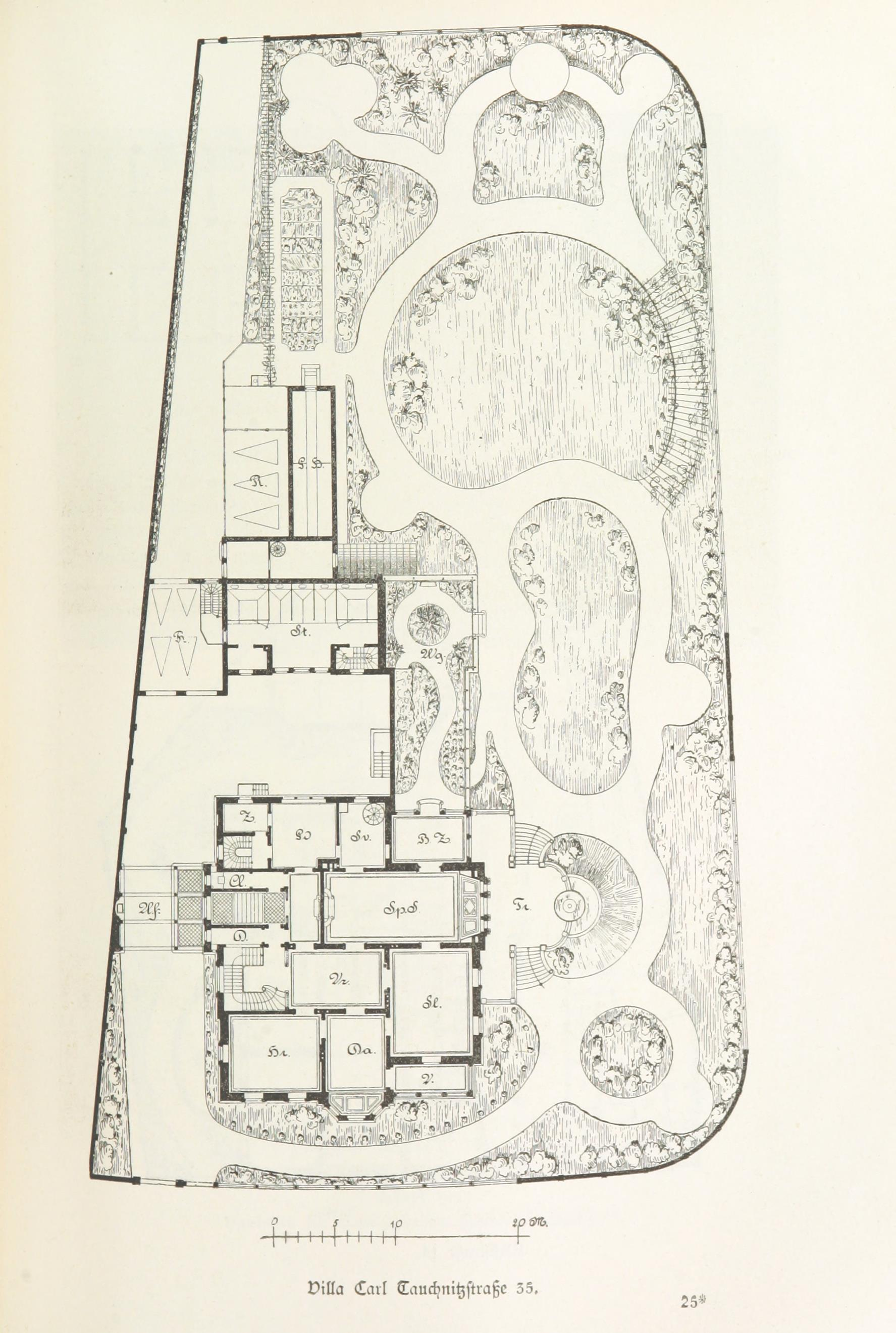 Architectural drawing of Villa Gruner, Leipzig, Germany